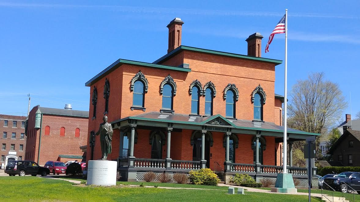 Picture of the Robert H. Jackson Center, with the statue of Robert H. Jackson